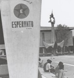 Universidad de Amtioquia Esperanto Grupo